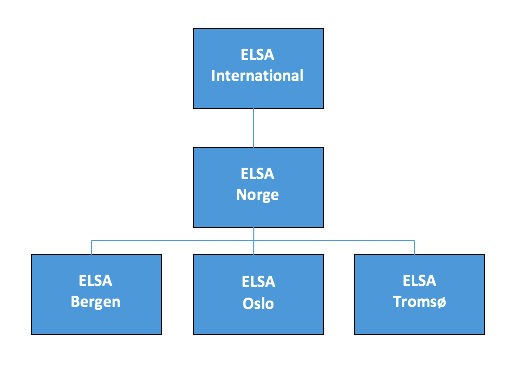 Structure - ELSA